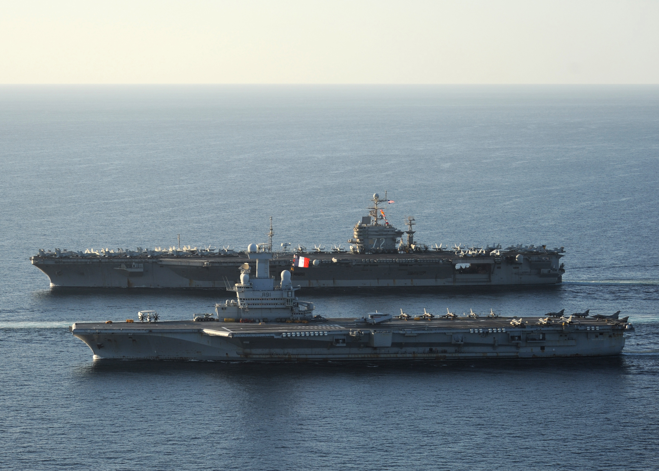 ARABIAN SEA (Dec. 10, 2010) The aircraft carrier USS Abraham Lincoln (CVN 72), back, and the French navy aircraft carrier Charles De Gaulle (R 91) are underway together in the Arabian Sea. Abraham Lincoln is deployed to the U.S. 5th Fleet area of responsibility supporting maritime security operations and theater security cooperation efforts in the region. (U.S. Navy photo by Chief Mass Communication Specialist Eric S. Powell/Released)